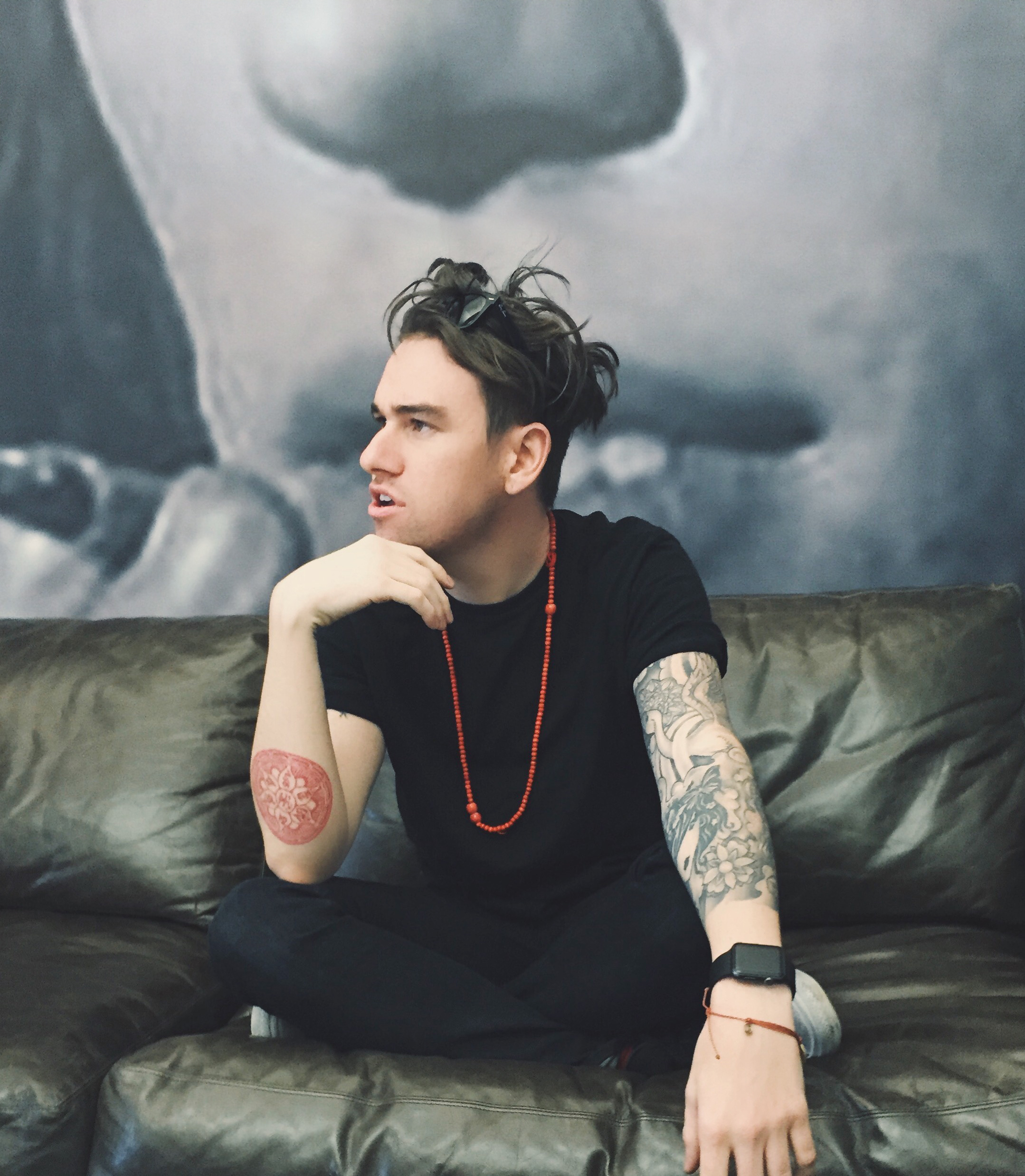 This photograph of Elliot James speaking at the Flipagram HQ about his involvment in the App was taken in Los Angeles, CA by Jeremy Michaels. Shot on an iPhone 6 - Processed with VSCO with A8 preset.